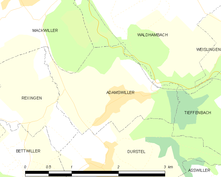 Map of French municipality